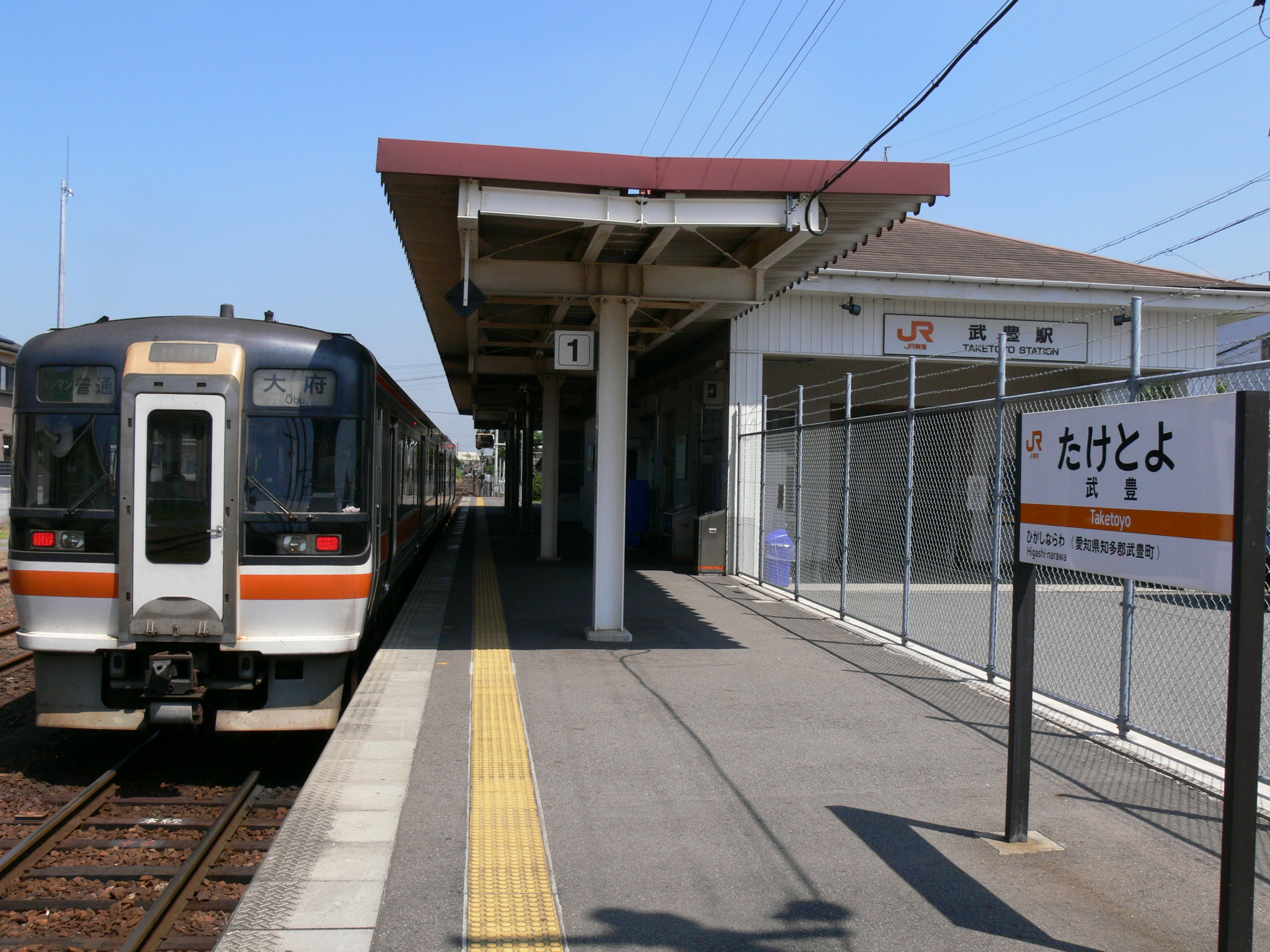 JR Central KiHa75 DMU at Taketoyo Station on the Taketoyo Line in Aichi Prefecture, Japan